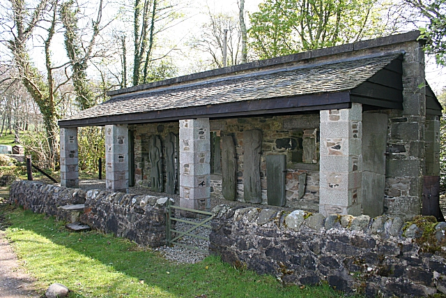 Kilberry Sculptured Stones This shelter was built to house a collection of burial slabs collected on Kilberry Estate. The information board says that the probably came from a local burial ground whose exact location is unknown, and had been used for building material in the eighteenth century.